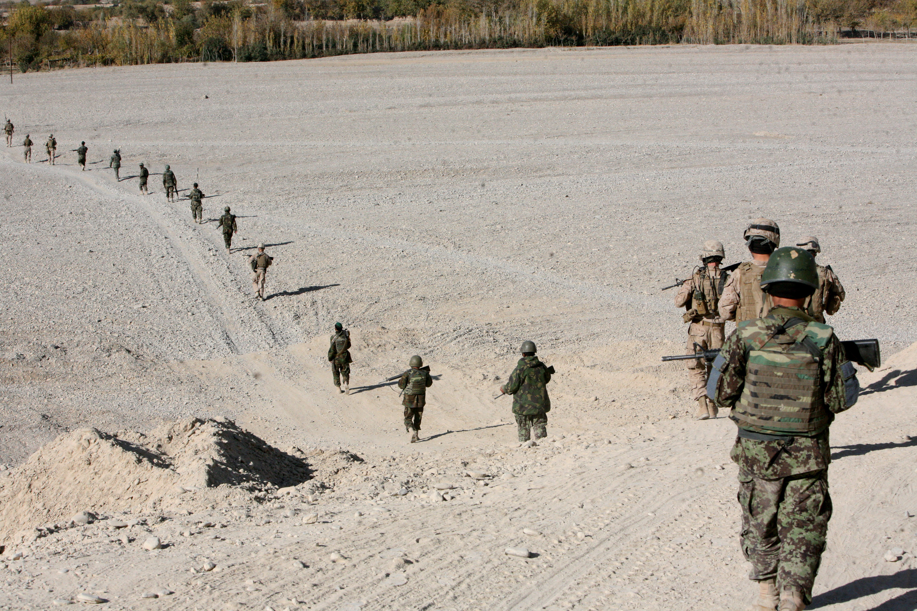 Afghan soldier’s patrol alongside Marines with 1st Bn., 8th Marines during the practical application section of the platoon tactics course in Musa Qal’eh, Nov. 30. During the course soldiers received classes on small unit leadership and counter insurgency then applied those lessons over several patrols through villages around Musa Qal’eh.